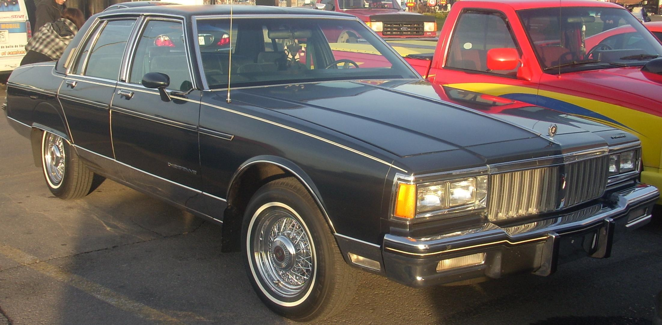 1984-1986 Pontiac Parisienne photographed in Montreal, Quebec, Canada at Gibeau Orange Julep.